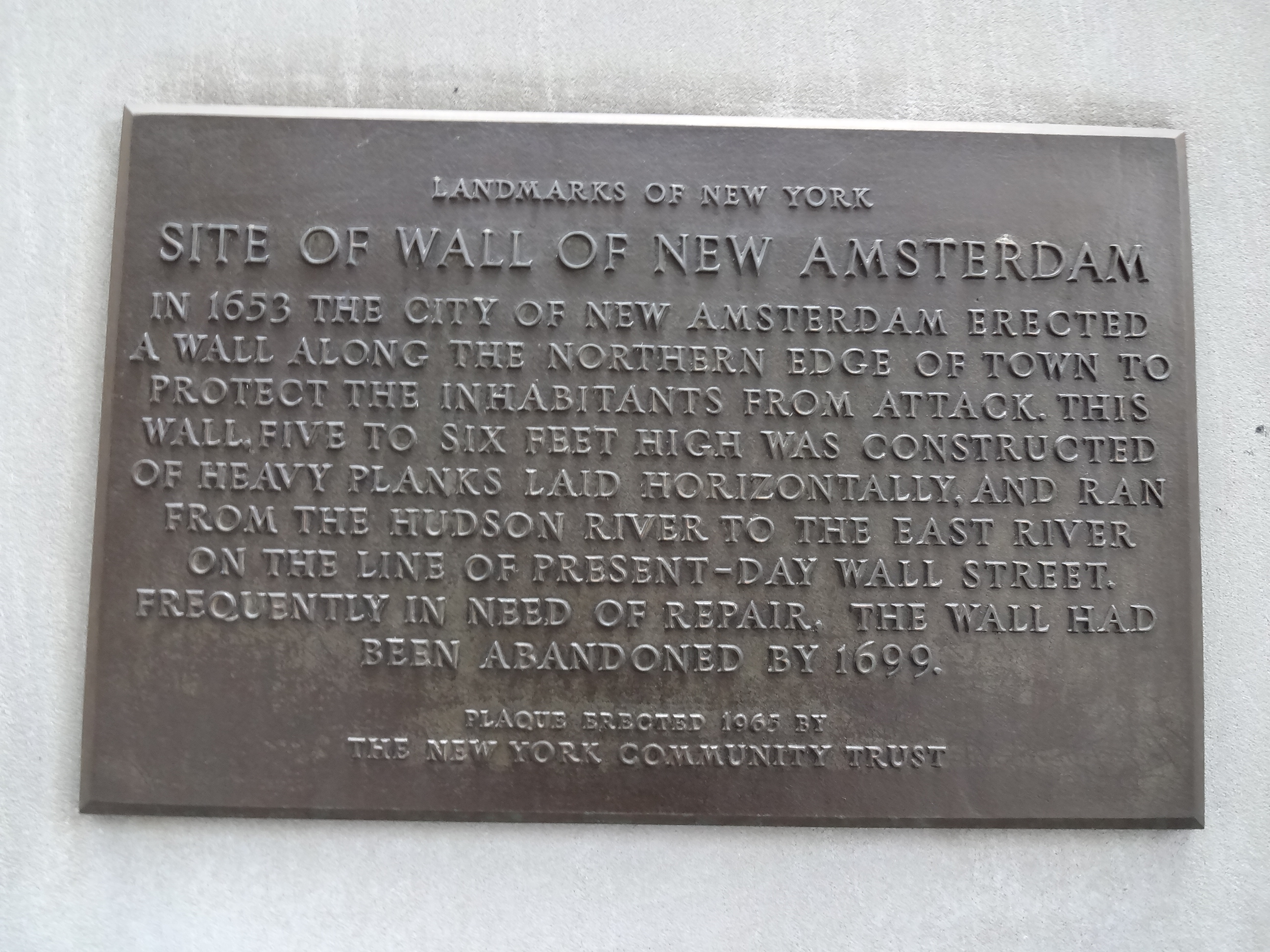 Site of Wall of New Amsterdam, in New York.